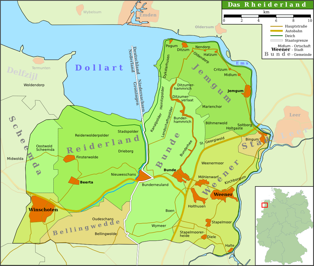 Map of the region Rheiderland/Reiderland in the north west of Germany/north east of the Netherlands